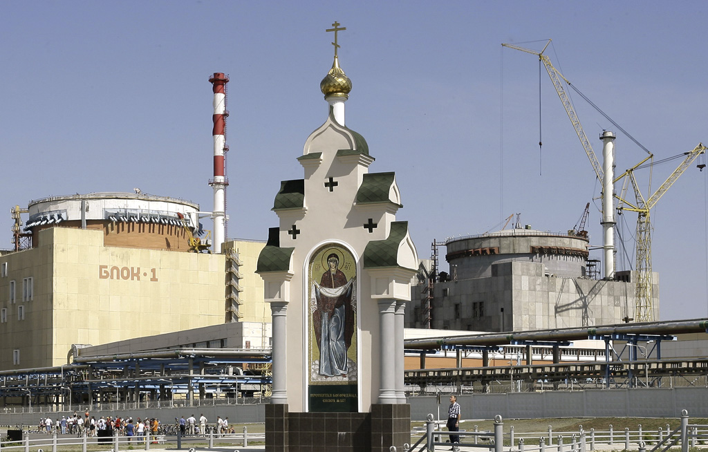 “Volgodonsk Nuclear Power Station”. An Orthodox tabernacle with an icon of Our Lady on the territory of the Volgodonsk Nuclear Power Station.